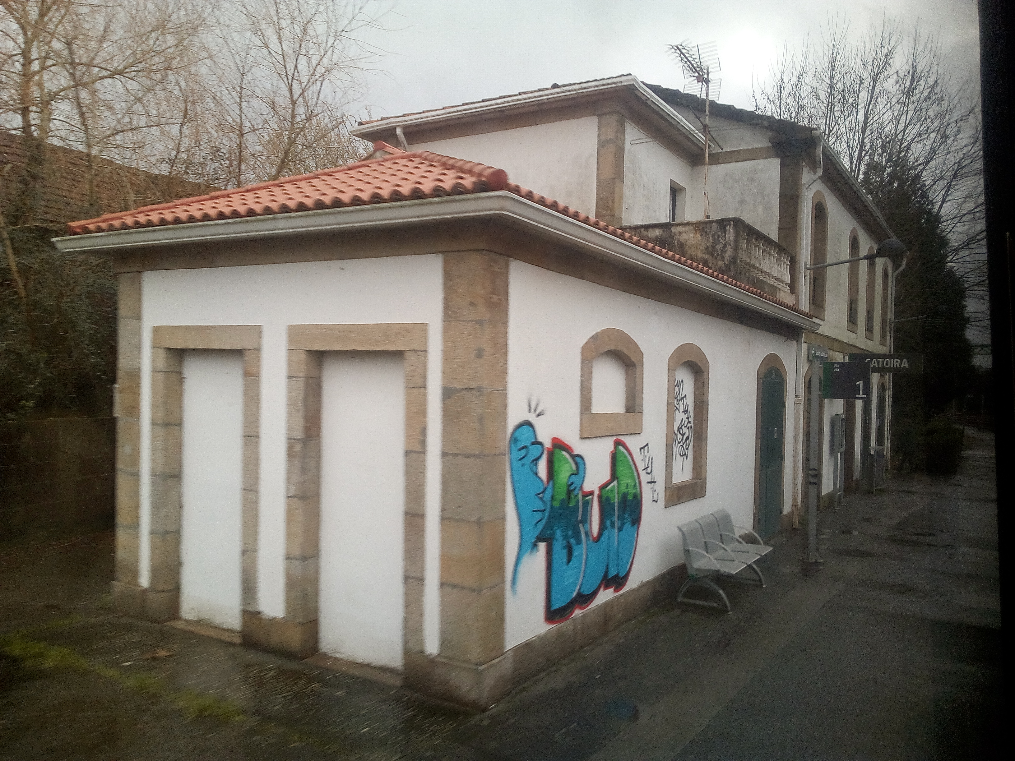 Catoira railway station- Catoira, Galicia